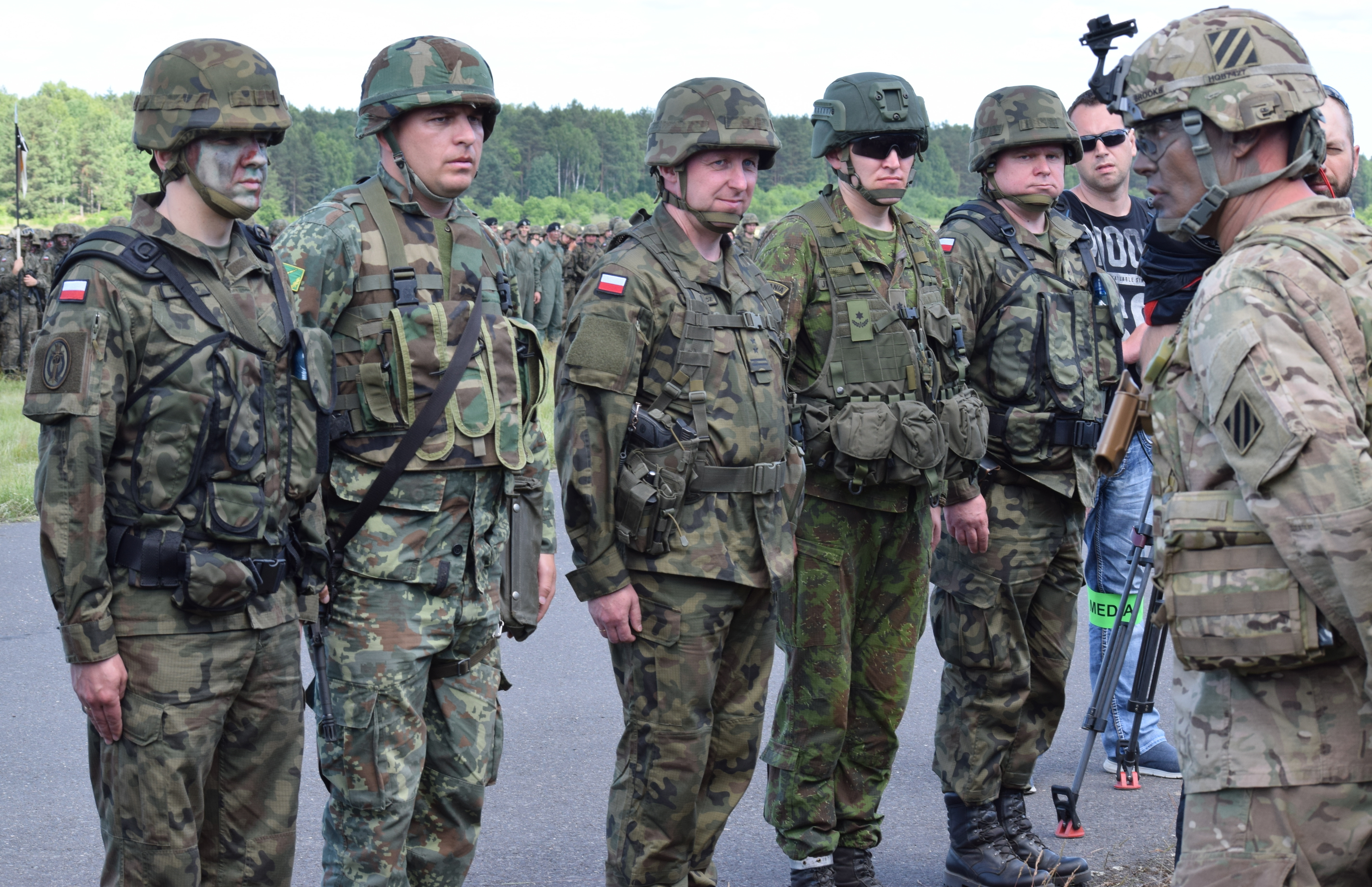 Col. Phil Brooks, the commander of the 1st Armored Brigade Combat Team, 3rd Infantry Division, addresses a group of multinational Soldiers during an opening ceremony marking the official start of Exercise Anakonda 16 at Drawsko Pomorskie, Poland June 6. Anakonda 16 is a Polish-led exercise taking place throughout Poland from June 7-17. It involves over 25,000 participants from more than 20 nations. Anakonda 16 is a premier event for U.S. Army Europe, allied and partnered nations that supports assurance and deterrence measures by demonstrating Allied defense capabilities to deploy, mass and sustain combat power. Unit: 1st Armor Brigade Combat Team, 3rd Infantry Division